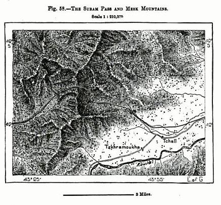 The Suram Pass and Mesk Mountains